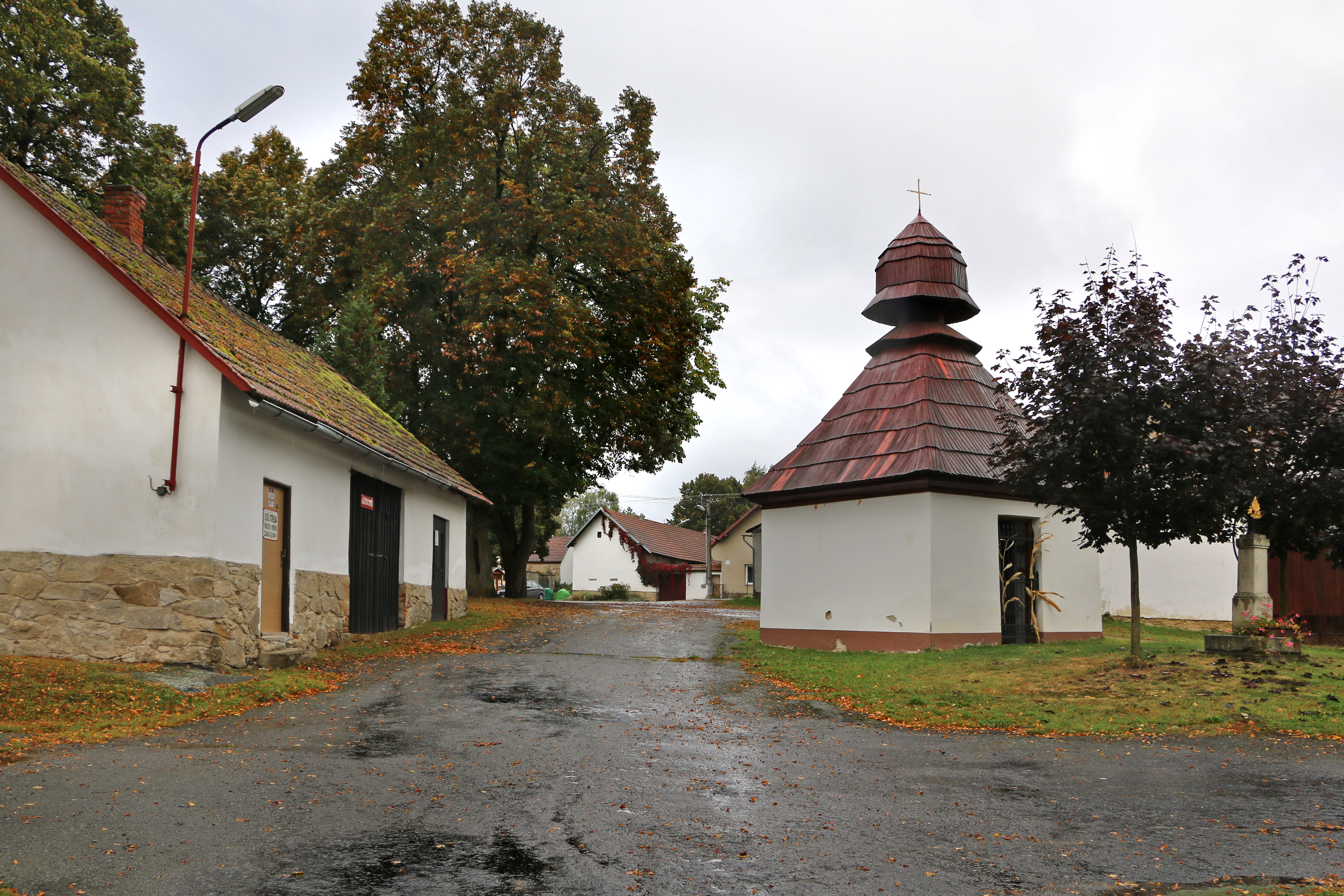 Common in Mezná, Czech Republic.